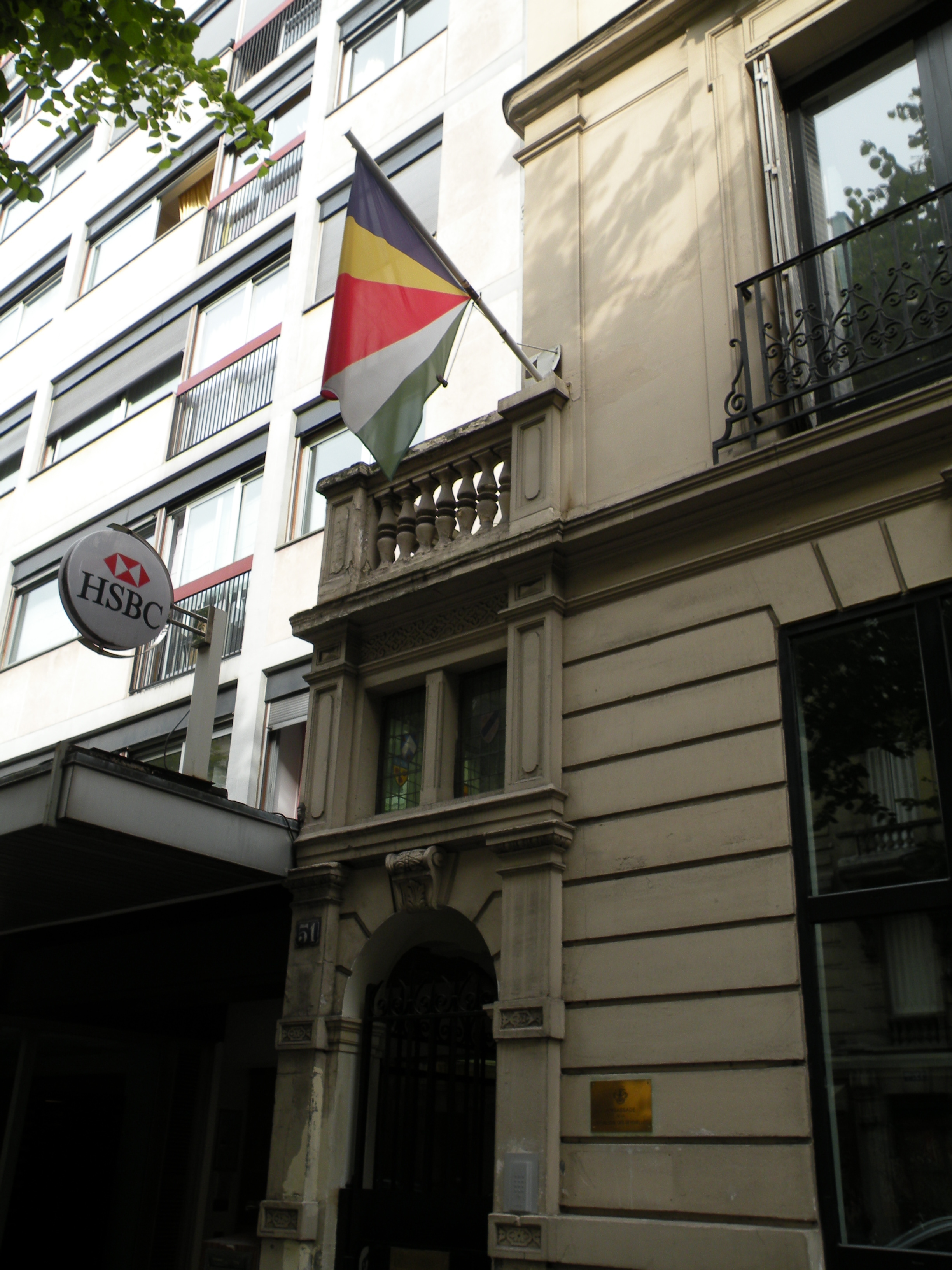 Seychellois embassy in France, Paris.